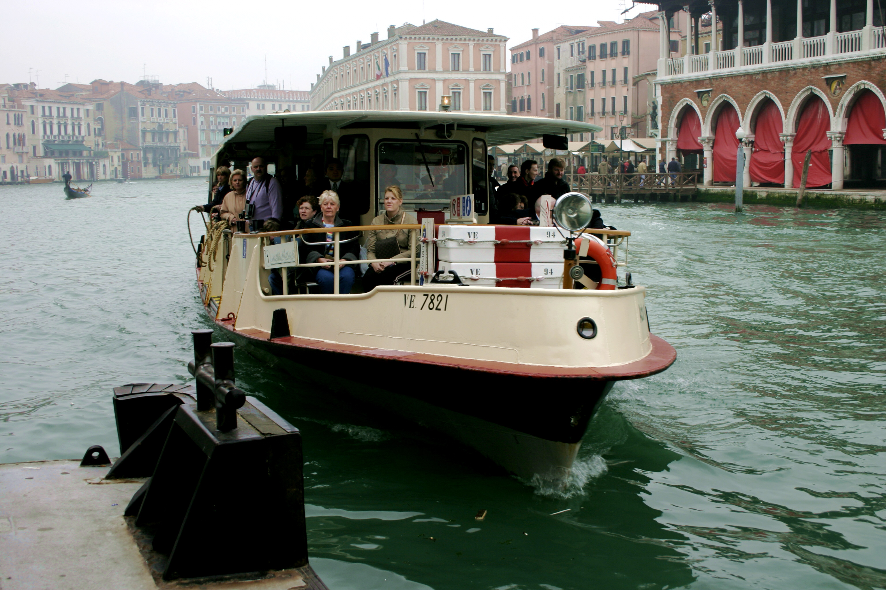 Venice - Grand Canal – People transport